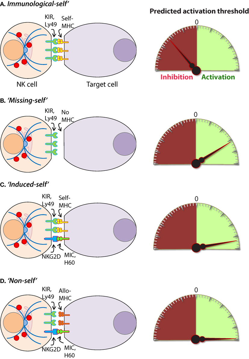 Mechanisms of target cell recognition by natural killer (NK) cells. NK cells lack clonotypic receptors and rely on germline-encoded activation and inhibitory receptors to recognize other cells around them.